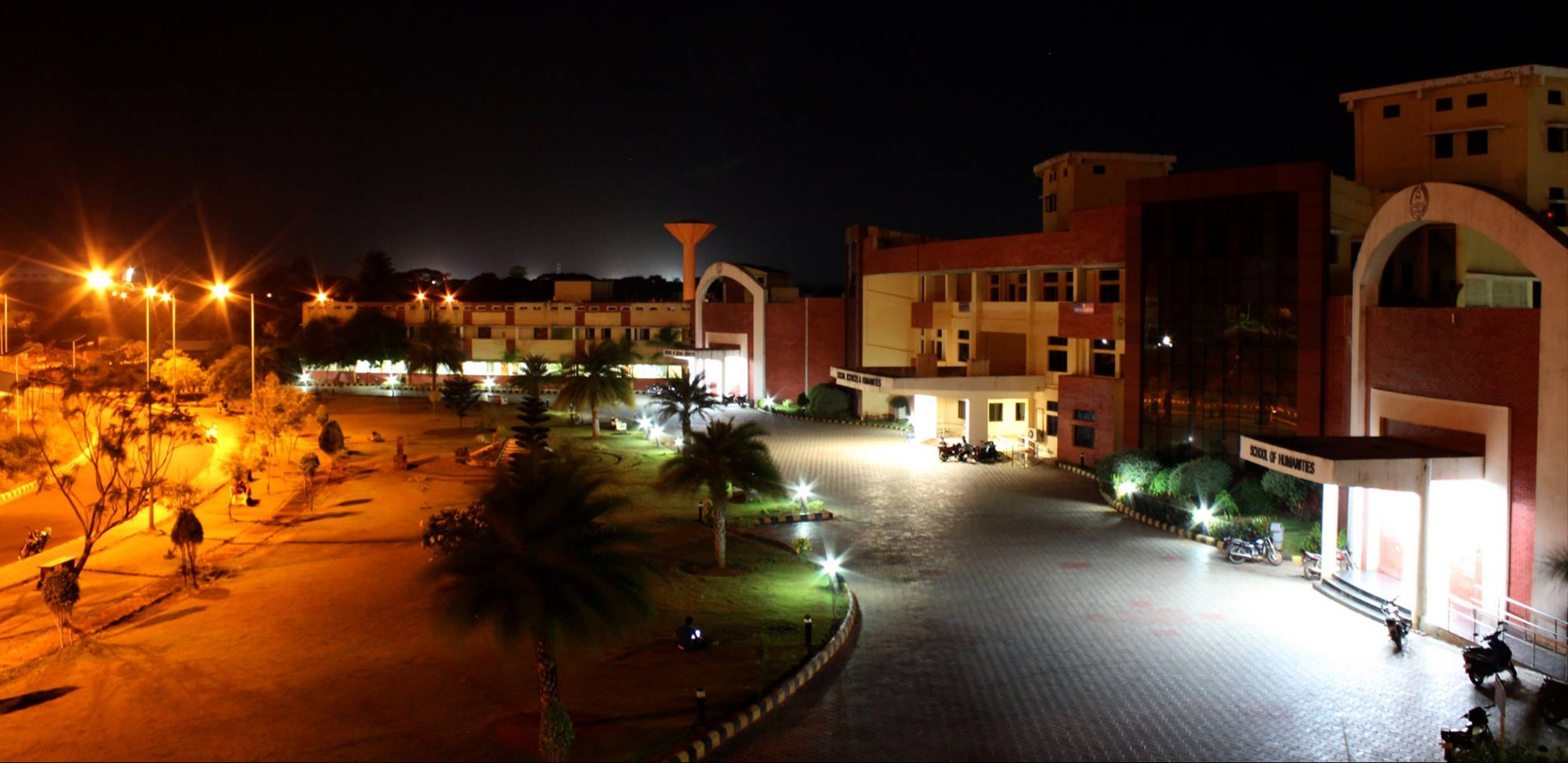 a night view of Social science and Humanities building in Silver Jublee campus of Pondicherry University